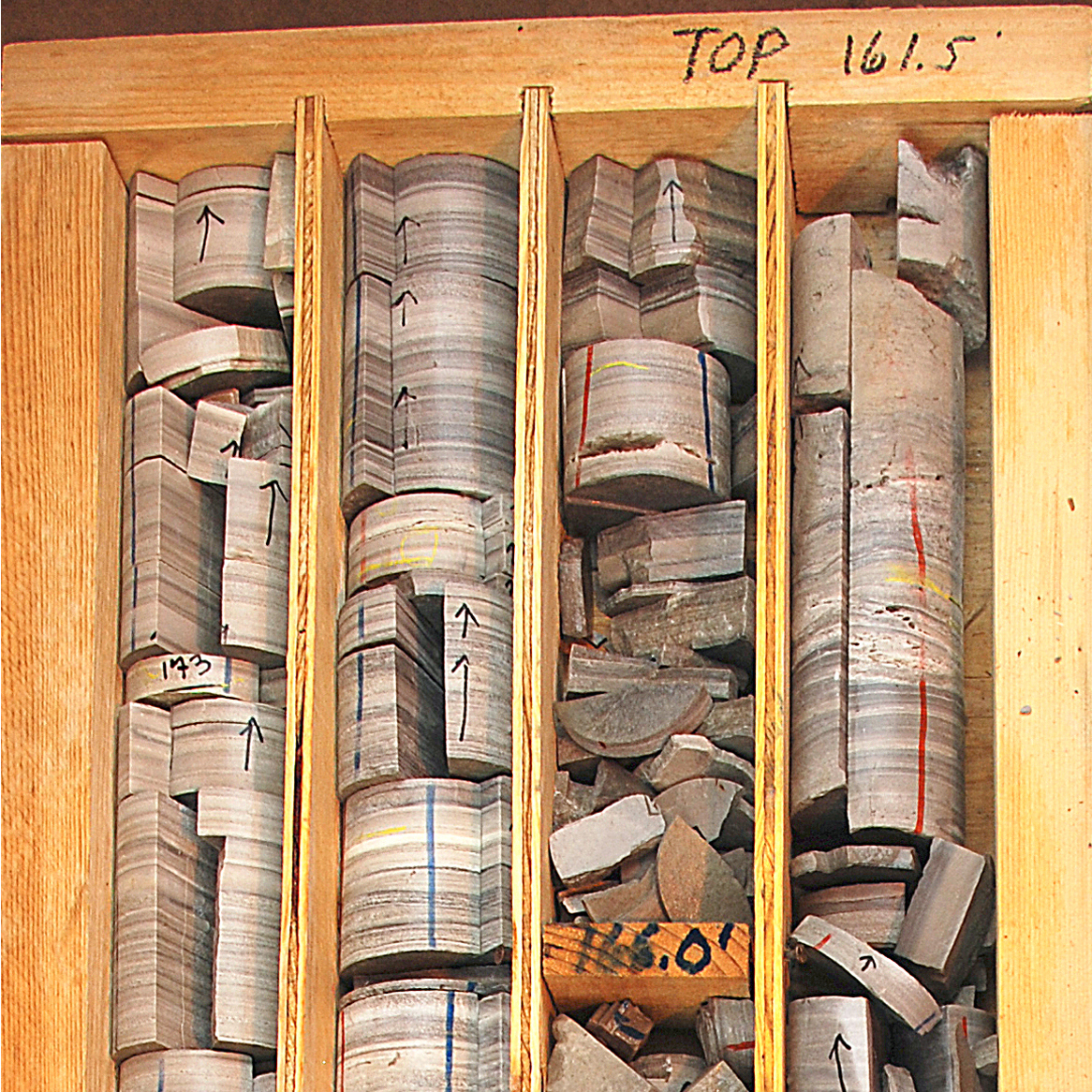 Cropped version of File:Waubakee Formation DrillCore.tif, uploaded by Nsullivan742. This version is in JPG format.